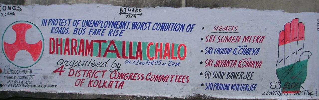 Indian National Congress mural in Kolkata. Symbol on the left is that of the Indian Youth Congress. The hand on the right is the symbol of the party. Photo: Soman